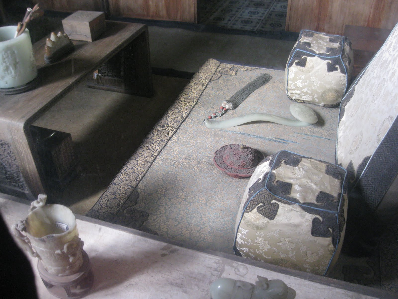 Forbidden City